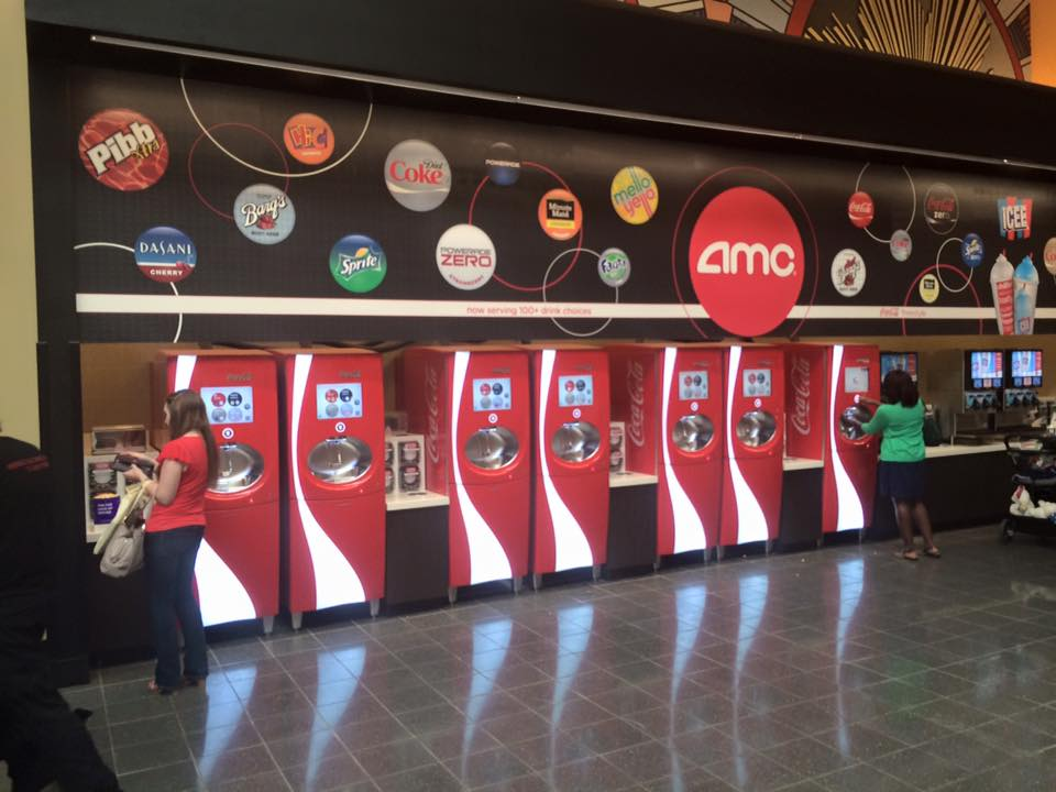 A row of Coke Freestyle machines at AMC Theaters in Palisades Center mall.